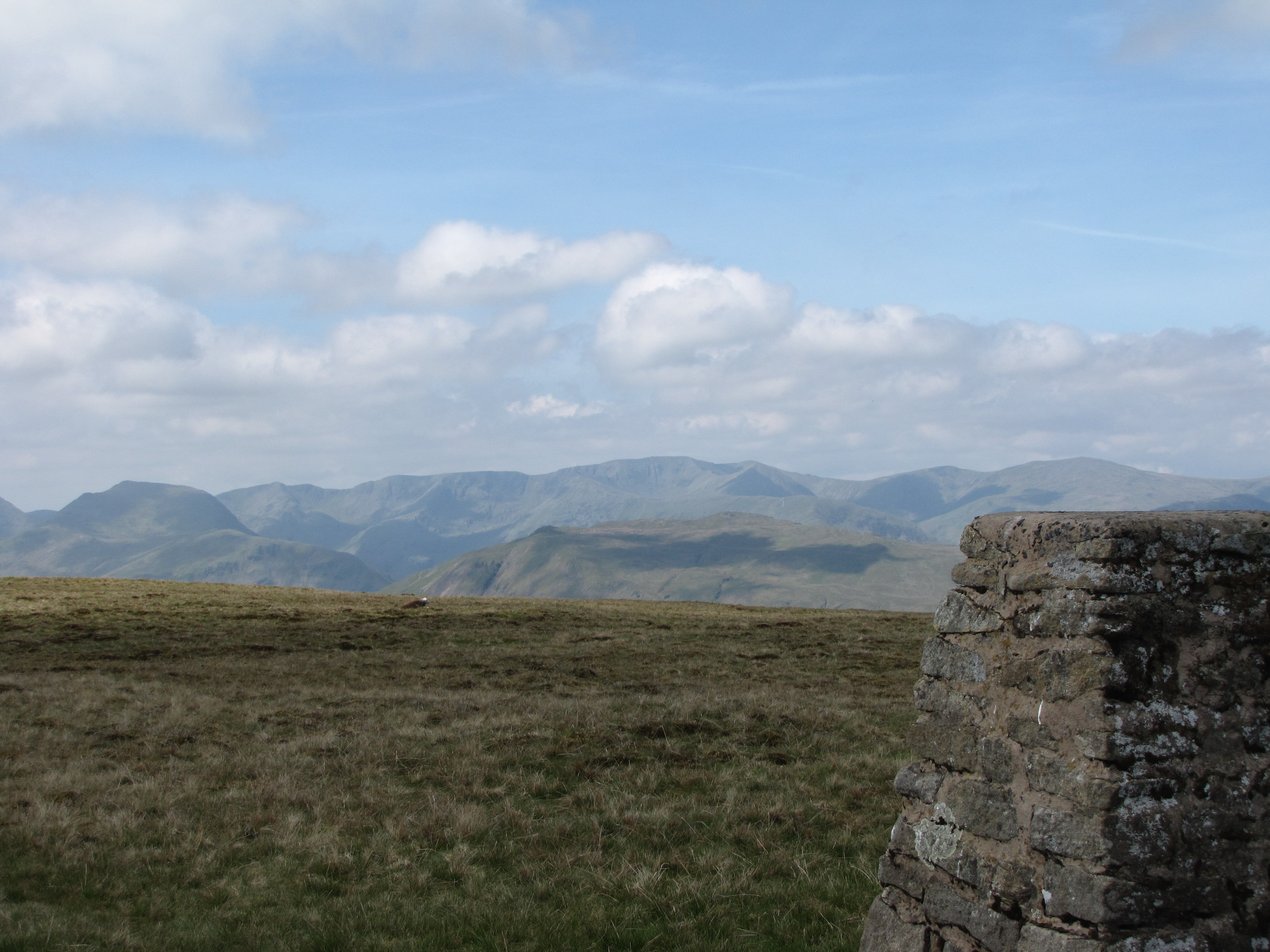 The view west from the summit of Loadpot Hill towards the Helvellyn range.